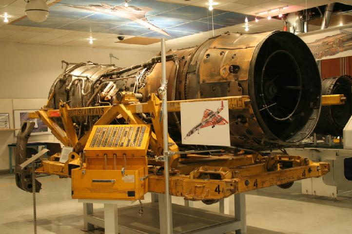 Used Rolls Royce 593 engine used by the Concorde airplane